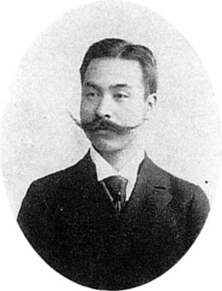 G. Yamagawa, Professor of Electrical Engineering.